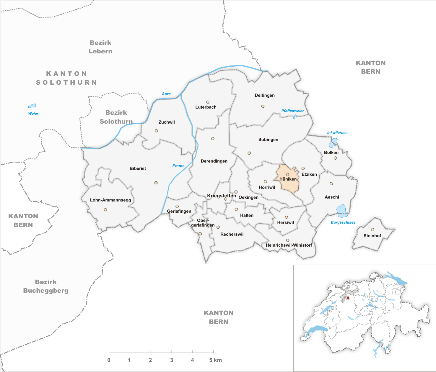 Municipality Hüniken